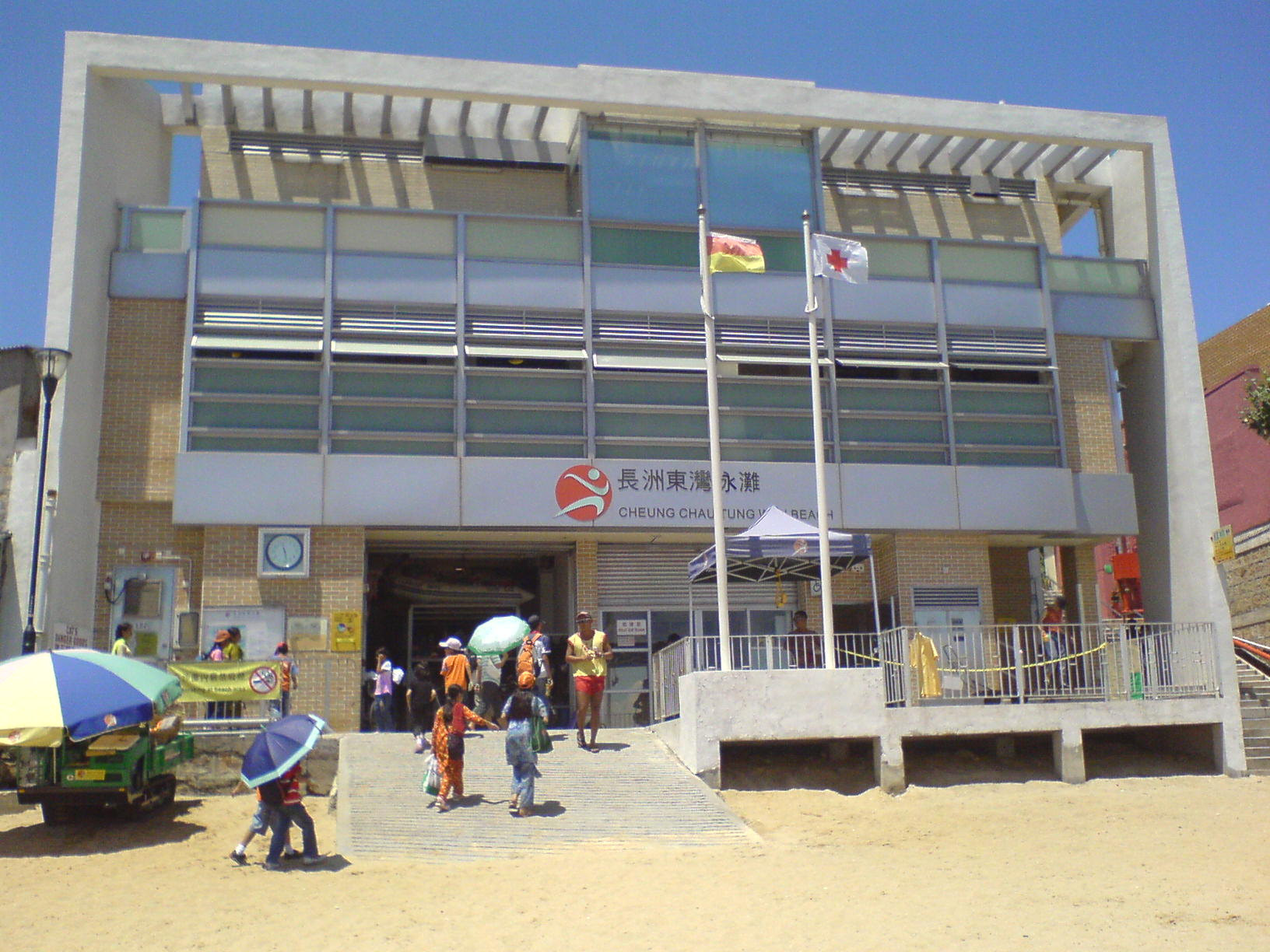 Cheung Chau Tung Wan Beach,Hong Kong